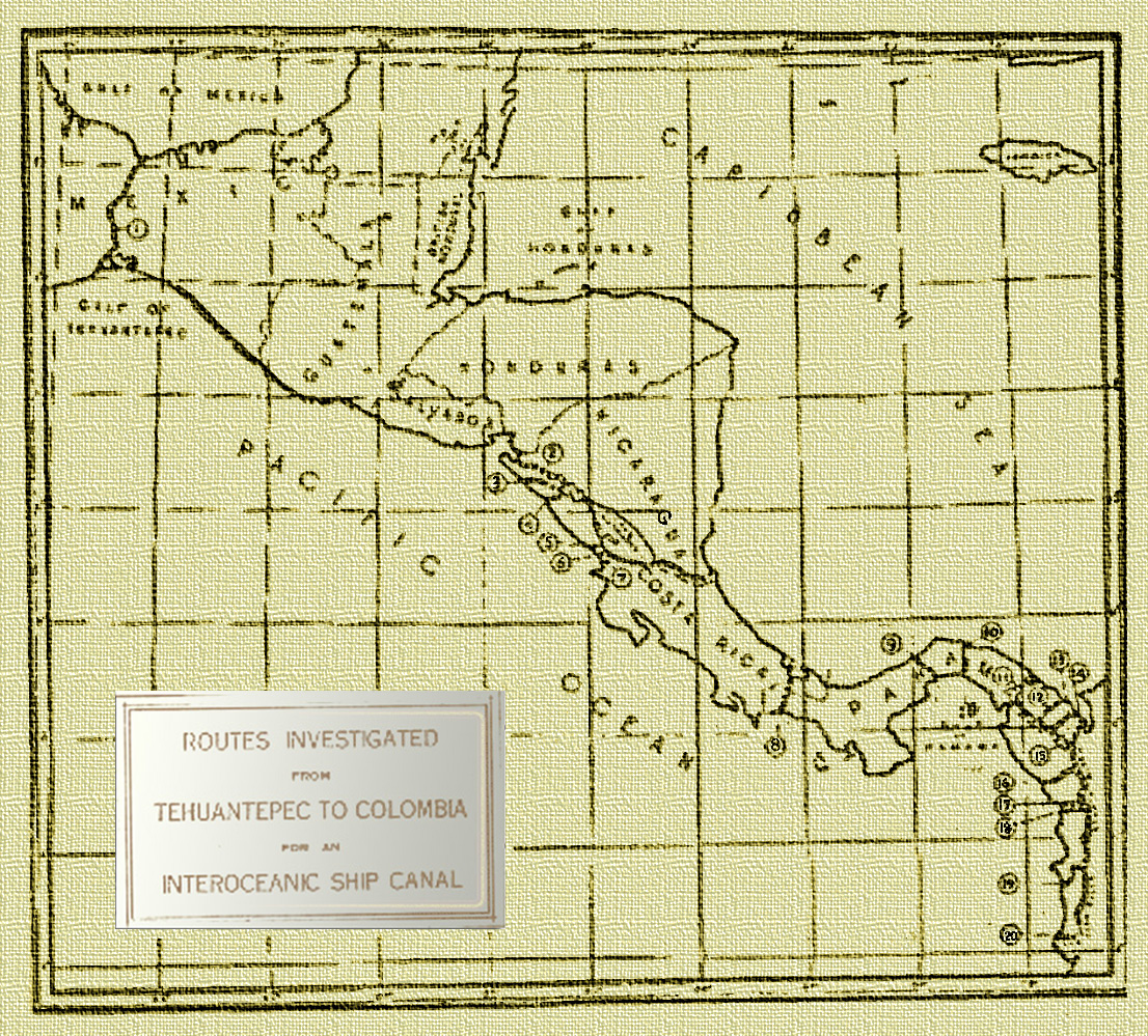 Routes investigated from Tehuantepec to Colombia for an Interoceanic Canal.